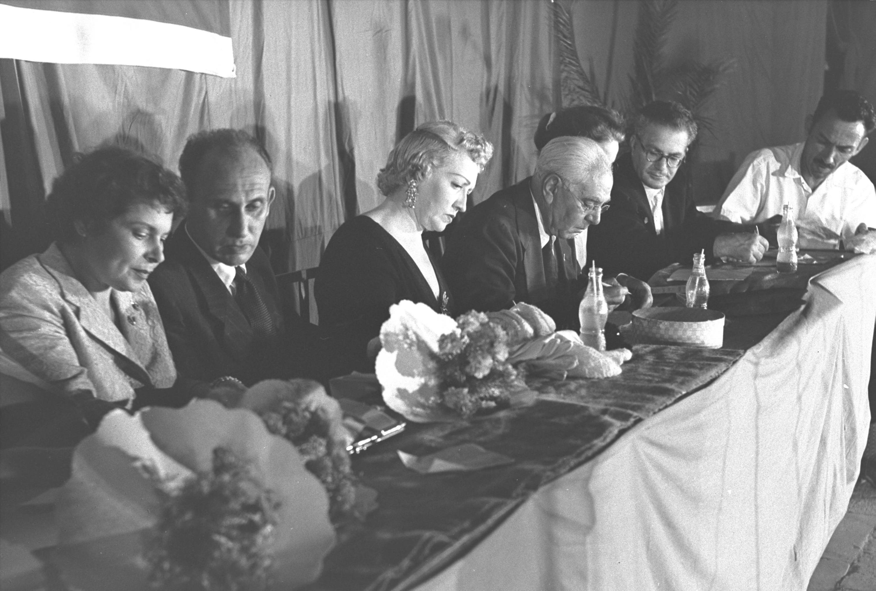 Panel of judges at the contest- r-l, L.Kosso, sculptor; mr. Mazor of South Africa; mrs. Leitersdorf designer; prof. Silverman; miss de Phillipe chairman of panel.